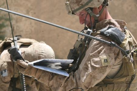 U.S. Marine Capt. Benjamin M. Middendorf, the former commander of Golf Company, 2nd Battalion, 5th Marine Regiment, pauses a patrol to check their position during helicopter-borne operations here, May 27, 2012. Middendorf, a native of Rochester, Minn., was selected by Gen. James F. Amos, the commandant of the Marine Corps, to receive the 2012 Lt. Col. William G. Leftwich Jr. Trophy for Outstanding Leadership. Leftwich, a Navy Cross recipient, died in 1970 when his helicopter crashed in Vietnam, where he was commanding the Marines and sailors of 1st Reconnaissance Bn. Middendorf is currently the commander of Headquarters and Service Co., 5th Marines.